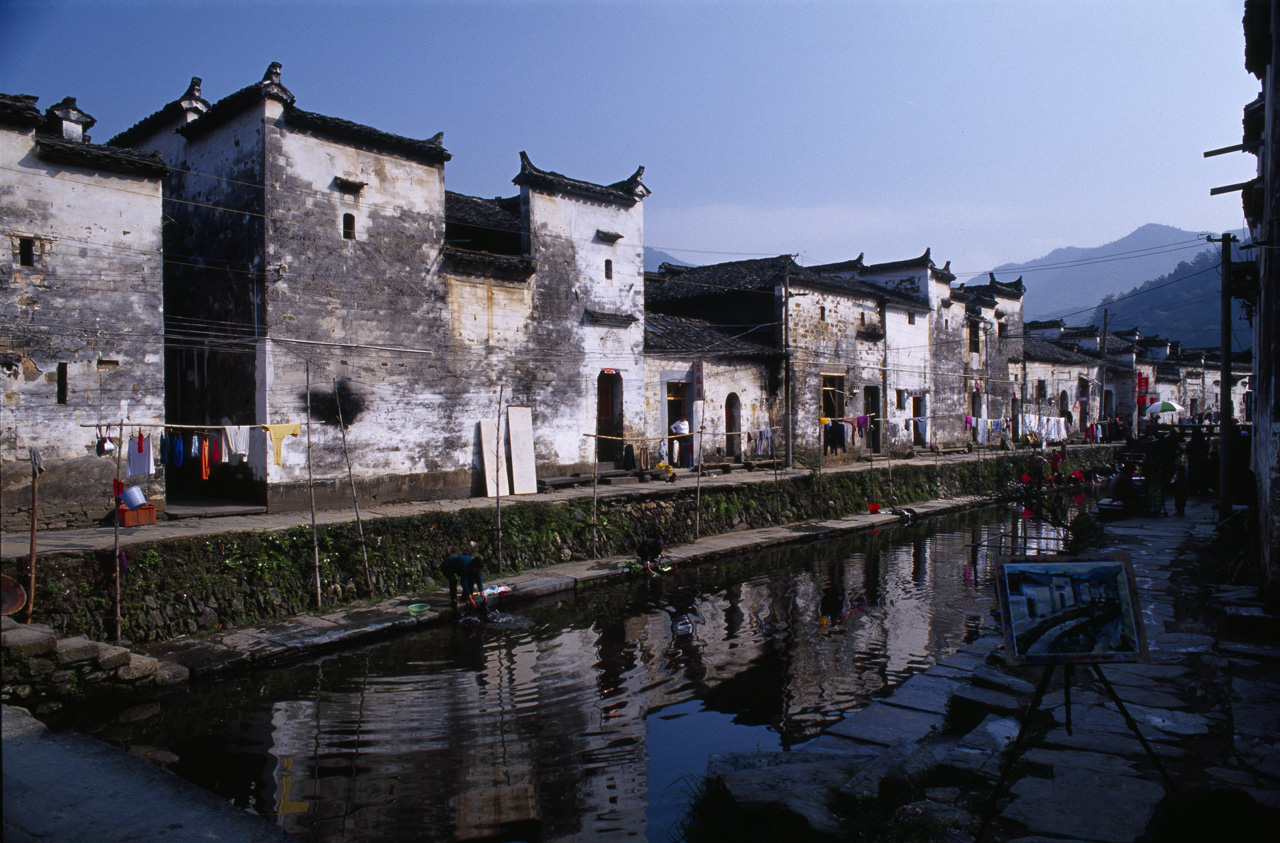 Likeng, Wuyuan, Jiangxi, China